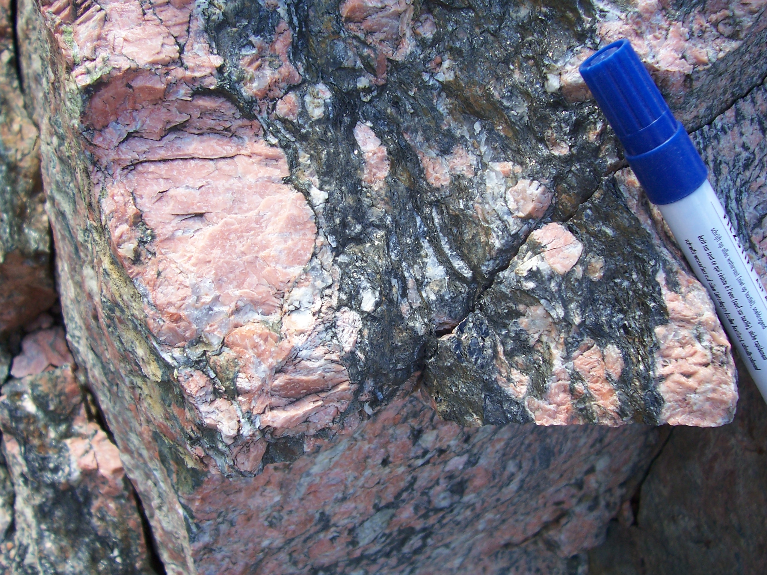 Rapakivi metagranite (gneiss) from the Western Gneiss Region, Norway. Dark minerals are mica (biotite-phlogopite), pink are feldspar.